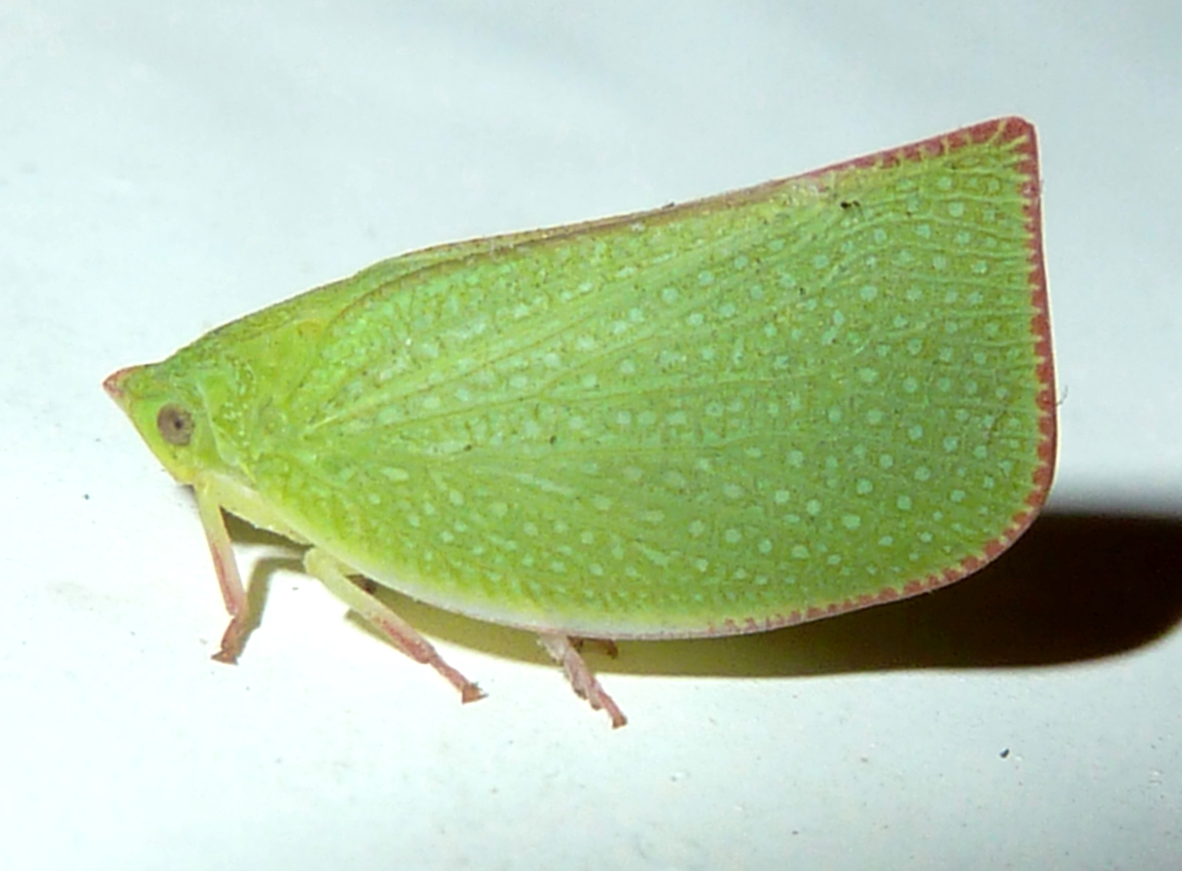 Parathiscia sp. in suburban Pretoria, South Africa